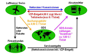 payment flow regarding the preferred-fares-model by Lufthansa